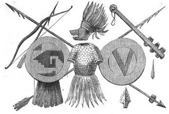 This drawing appears on a page between pages 98 and 99 of the book. The caption below this drawing in the book says, "Aztec costumes and arms".